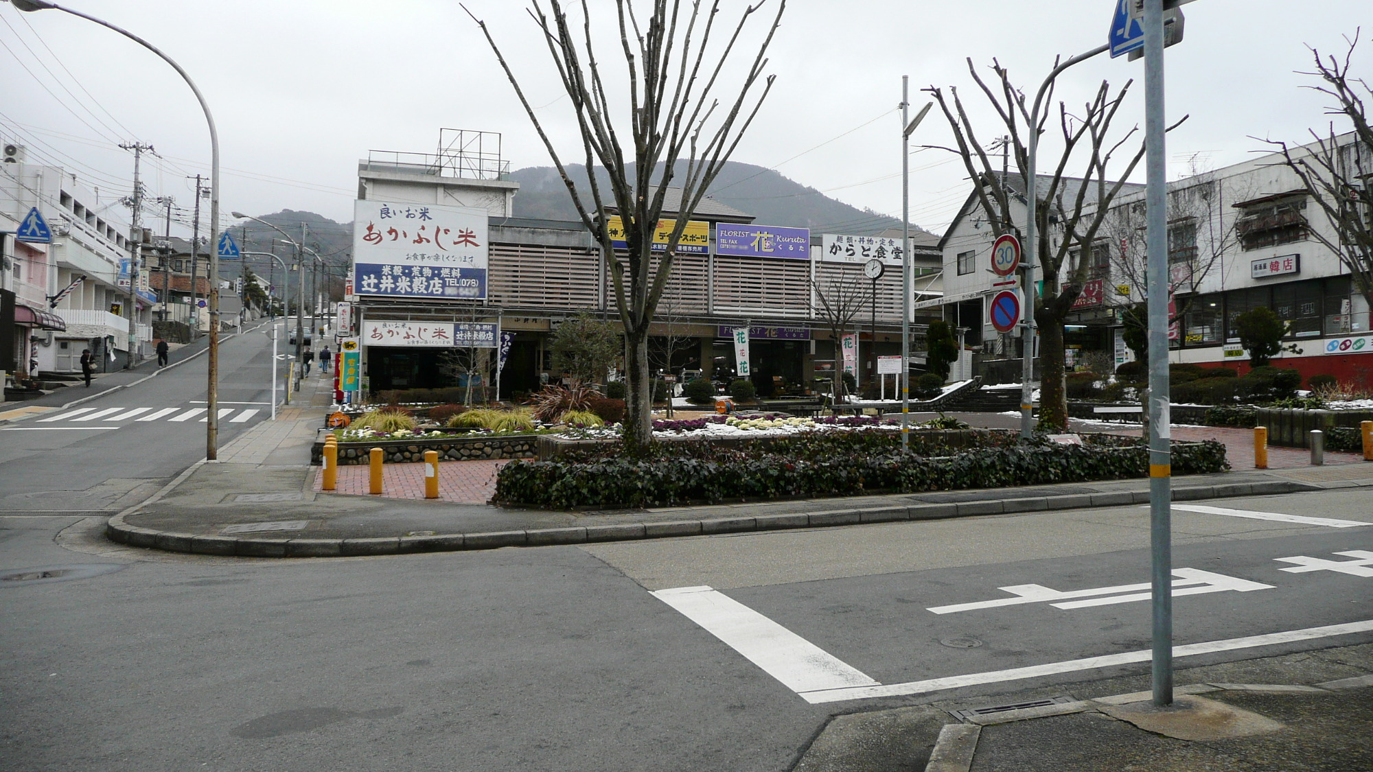 Kobe Electric Railway Karatodai Station square